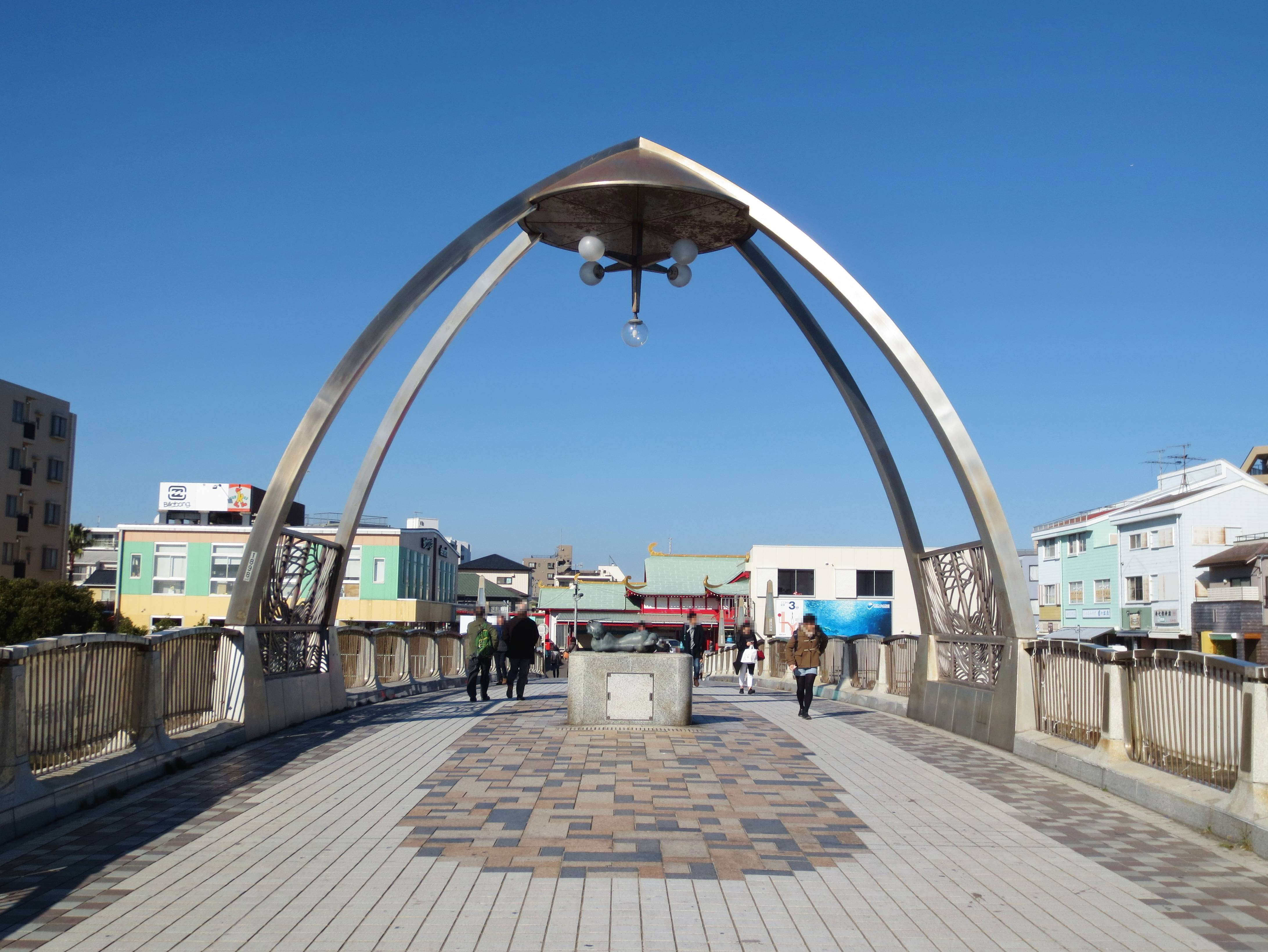 Benten Bridge (Katase-kaigan, Fujisawa, Kanagawa).